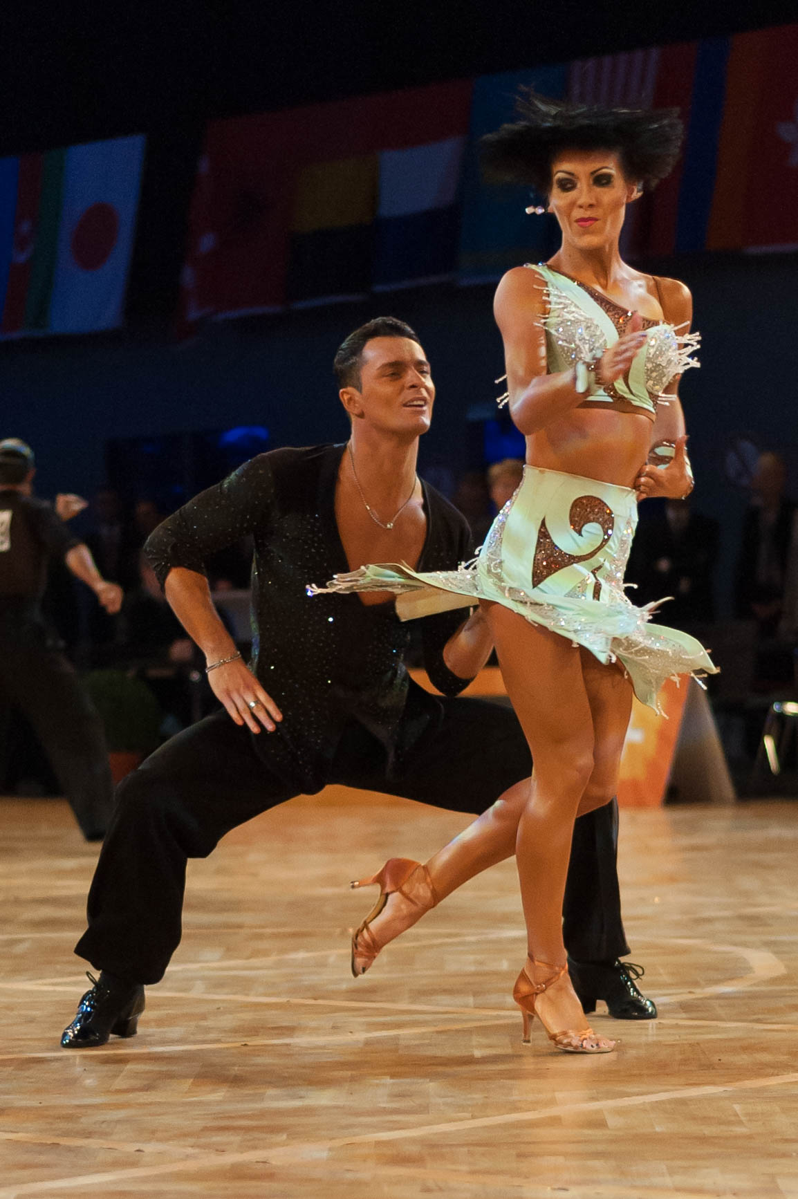 2015 WDSF World DanceSport Championship Latin, 2015-11-21, Schwechat, Lower Austria